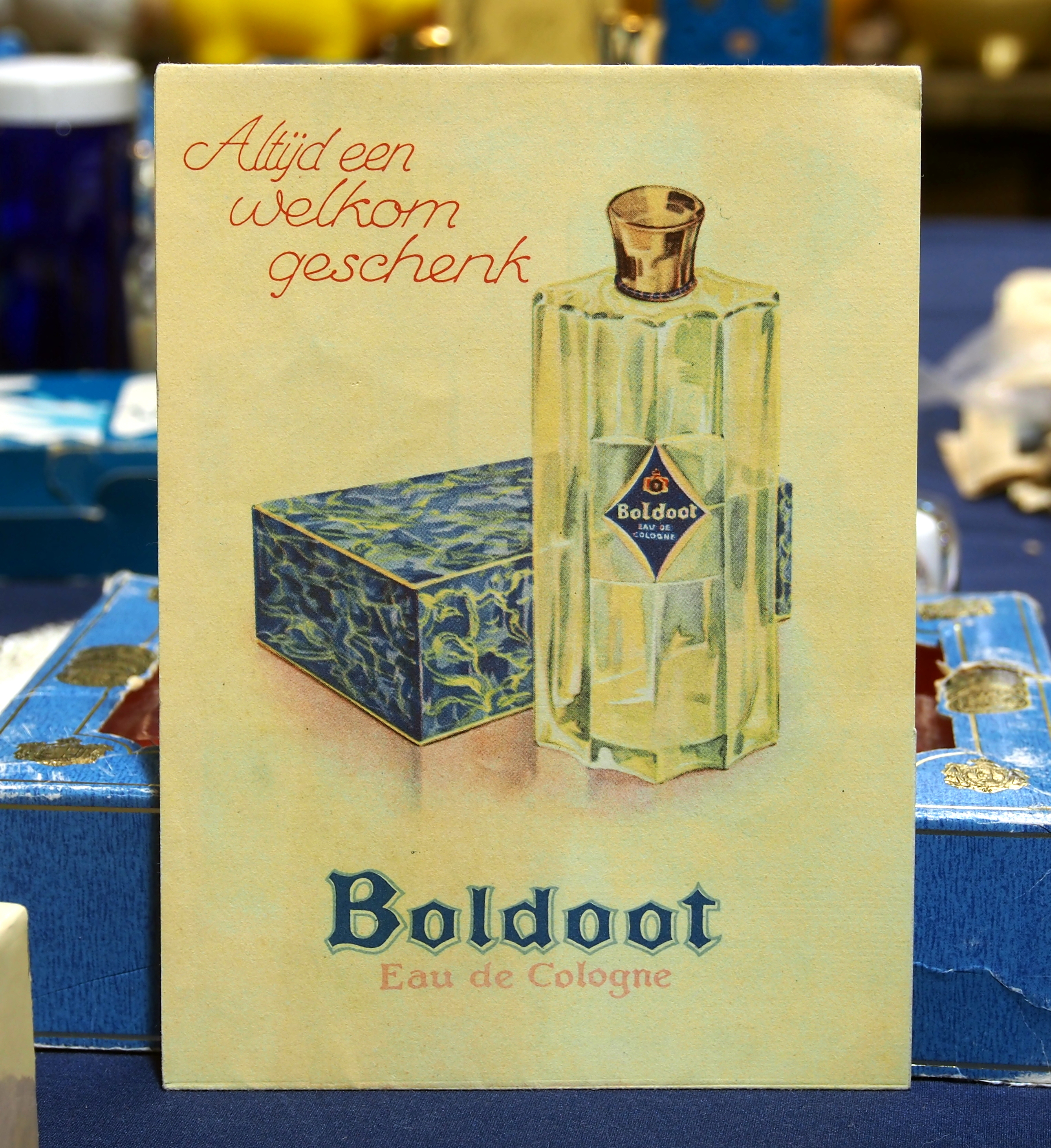 Boldoot - Old Dutch product that is not produced and not sold anymore for a very long time and the company does not exist anymore either.